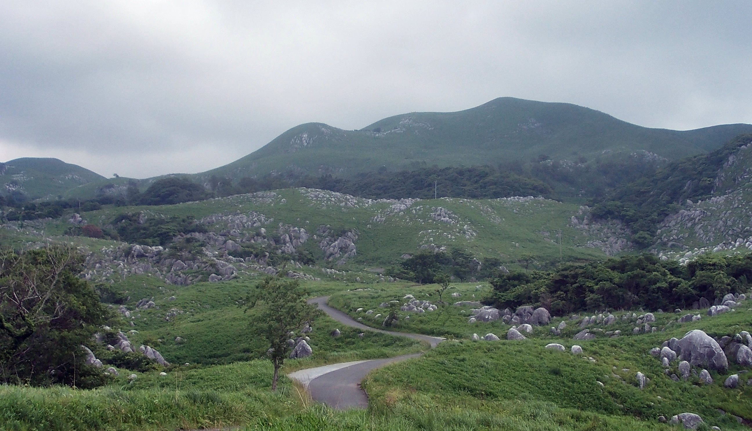 Hiraodai panorama: the Karst Plateau in the center picture, Mount Ohira in foreground, and Hiraodai Branch Path is running through the plateau. It leads to Yogenbaru, in the middle of Mount Ohira, has many limestone pillars lying on the ground.